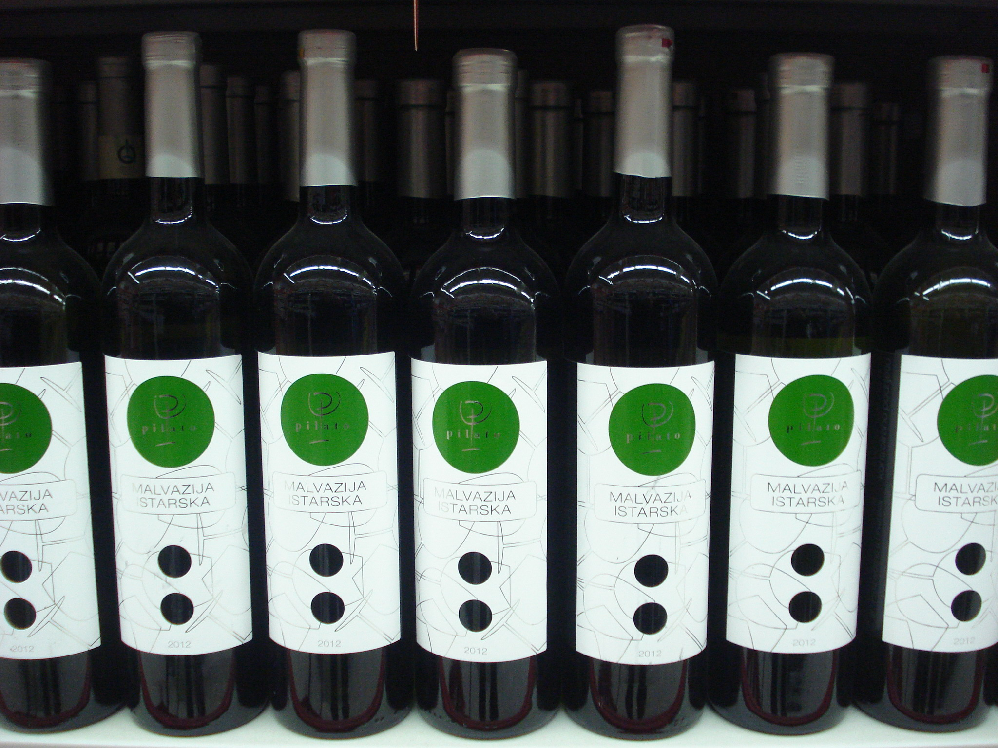 Bottles of Malvazija istarska (Malvasia of Istria) wine, autochthonous quality white wine with controlled geographical origin, produced in Istria wine subregion, CroatiaHrvatski: Boce vina Malvazija istarska, autohtonog kvalitetnog bijelog vina s kontroliranim zemljopisnim podrijetlom, proizvedeno u vinogradarskoj podregiji Istra, Hrvatska